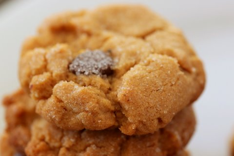 Stacked peanut butter chocolate chip cookies detail.